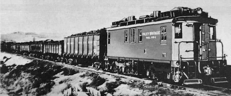 Photo of Foley Brothers GE-Ingersoll Rand 110-ton diesel-electric locomotive with road number 110-1 delivered in January 1930. The locomotive worked a coal mine in Coalstrip, Montana and was outphased in the 1950s or 60s. The locomotive is preserved in the California State Railroad Museum in Sacramento.